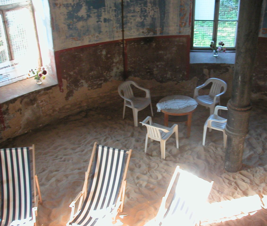 Interior of the Altglienicke water tower in Treptow-Köpenick, Berlin.